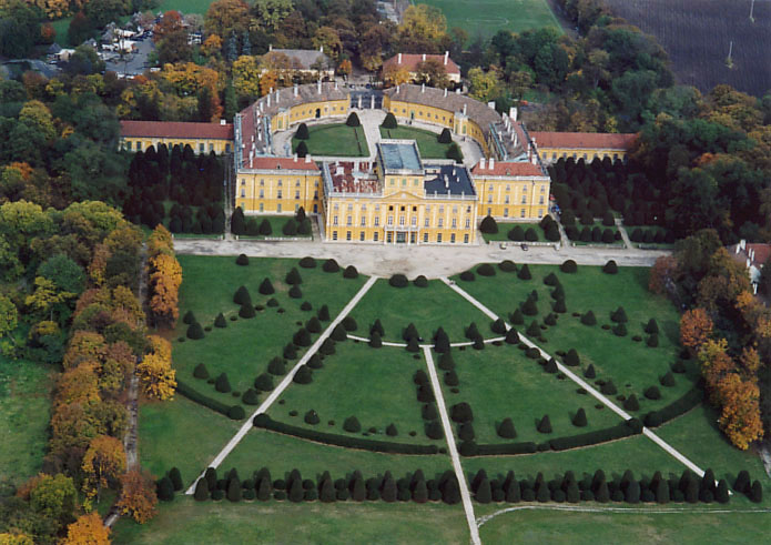 The Esterházy Castle/Palace in Fertőd, Hungary